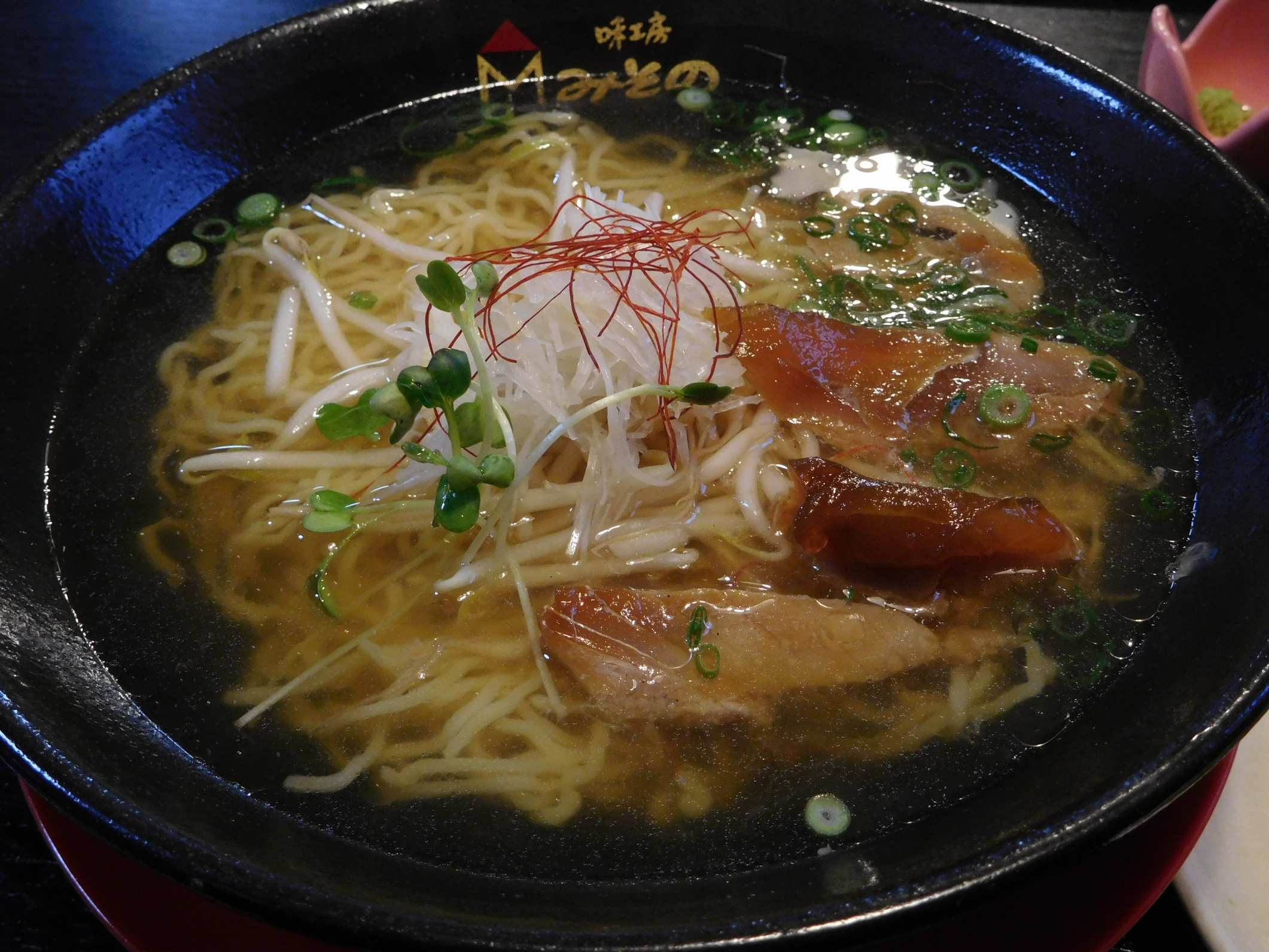 Tuna Ramen (IchikiKushikino City, Kagoshima, Japan)